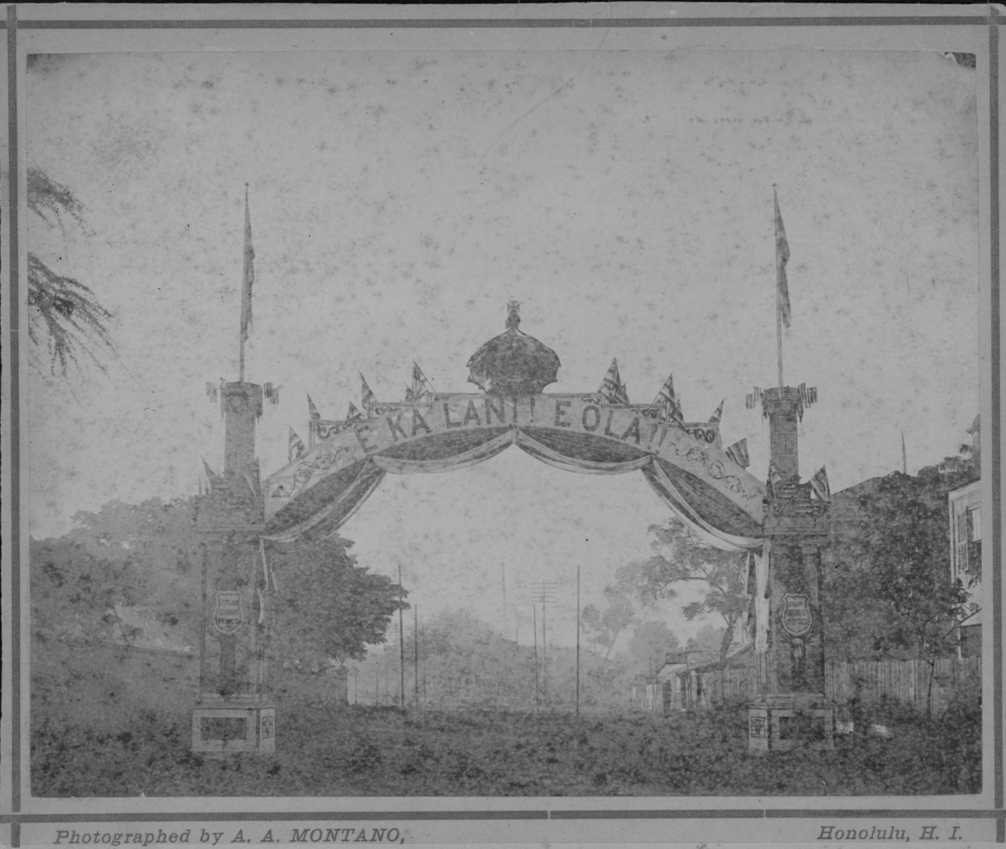 Arch welcoming King Kalakaua home from trip around the world. Motto: E Ka Lani E Ola!! Erected by foreign legations, including Scotland, Germany, France, Spain, Portugal, and the United States.